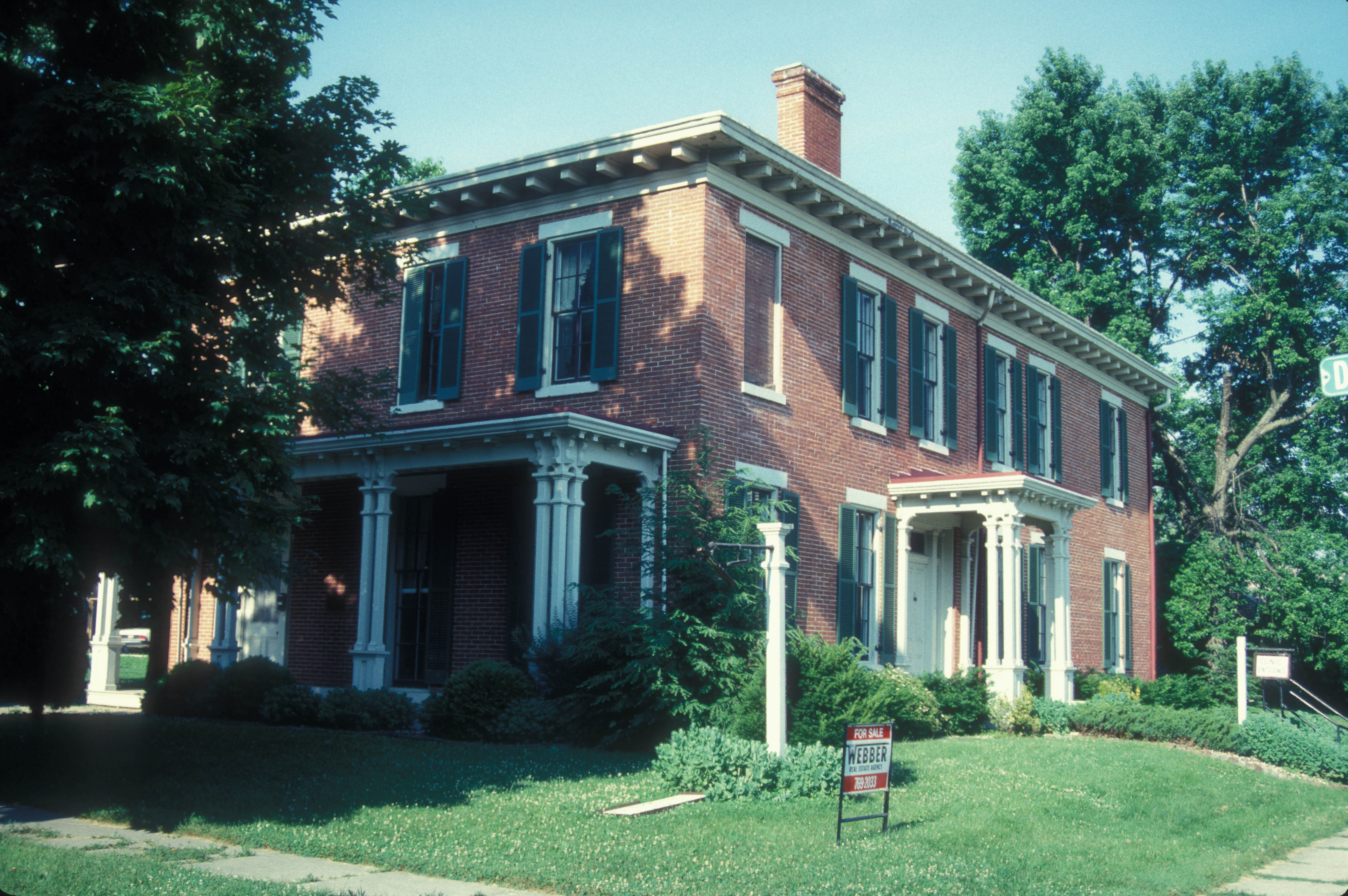 SPIEGLE HOUSE CIRCA 1850; UNION HEADQUARTERS IN THE AREA DURING THE CIVIL WAR; ITALIANATE